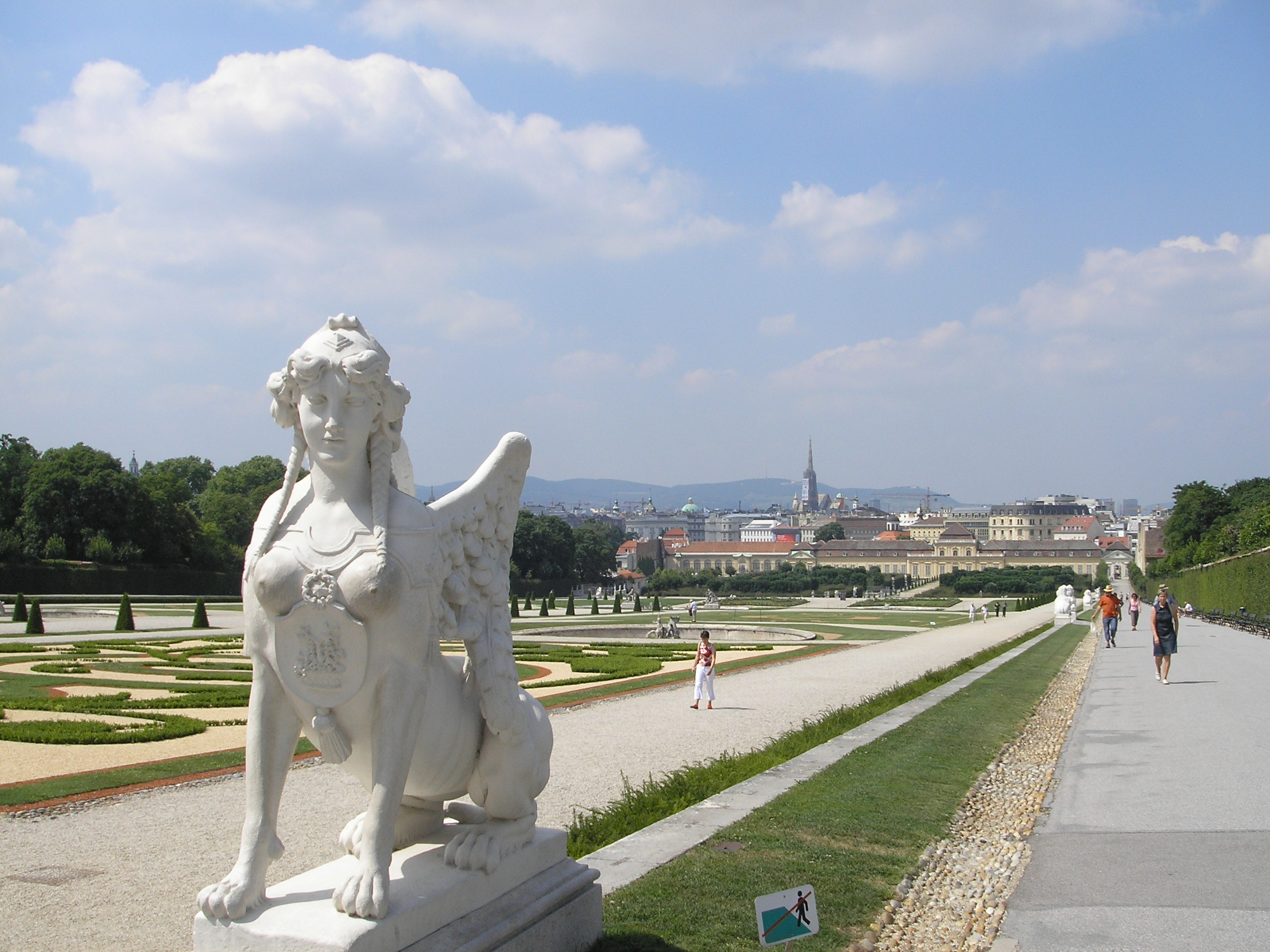 View on the city from the Upper Belvedere palace in Vienna. Constructed in the baroque era for Prince Eugene of Savoy. This was his summer residence.